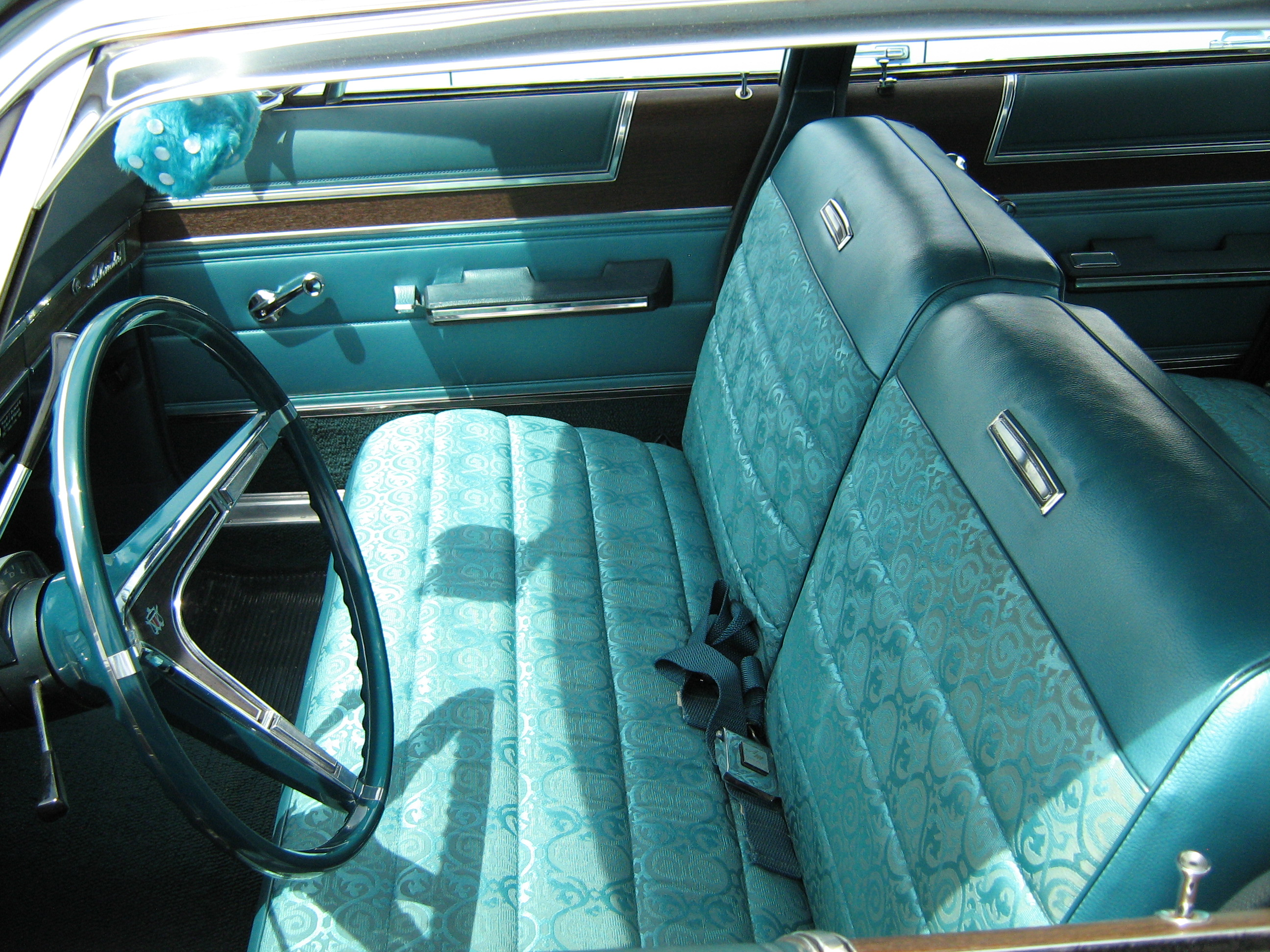 1967 Ambassador 990 four-door sedan by American Motors Corporation (AMC). This car is finished in two-tone aqua paint (Alameda Aqua #P34 primary color and Marina Aqua Metallic #P8 on the roof) with a matching standard interior upholstery and bench seats. Picture was taken at the "2010 AMC Invasion of Gettysburg" (Pennsylvania).